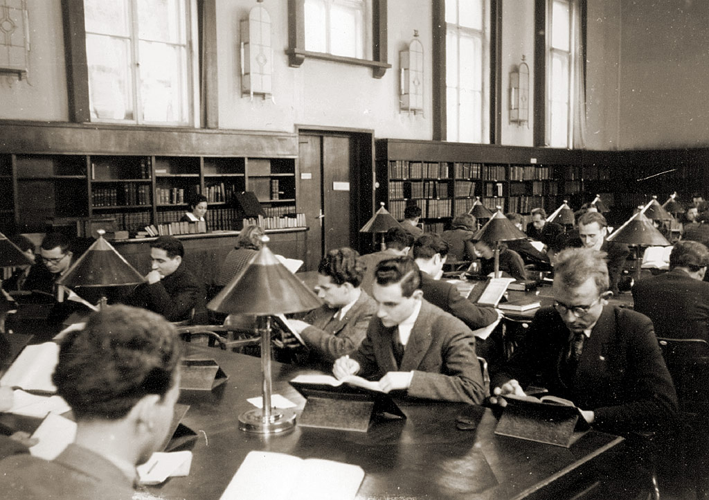 Sofia University library